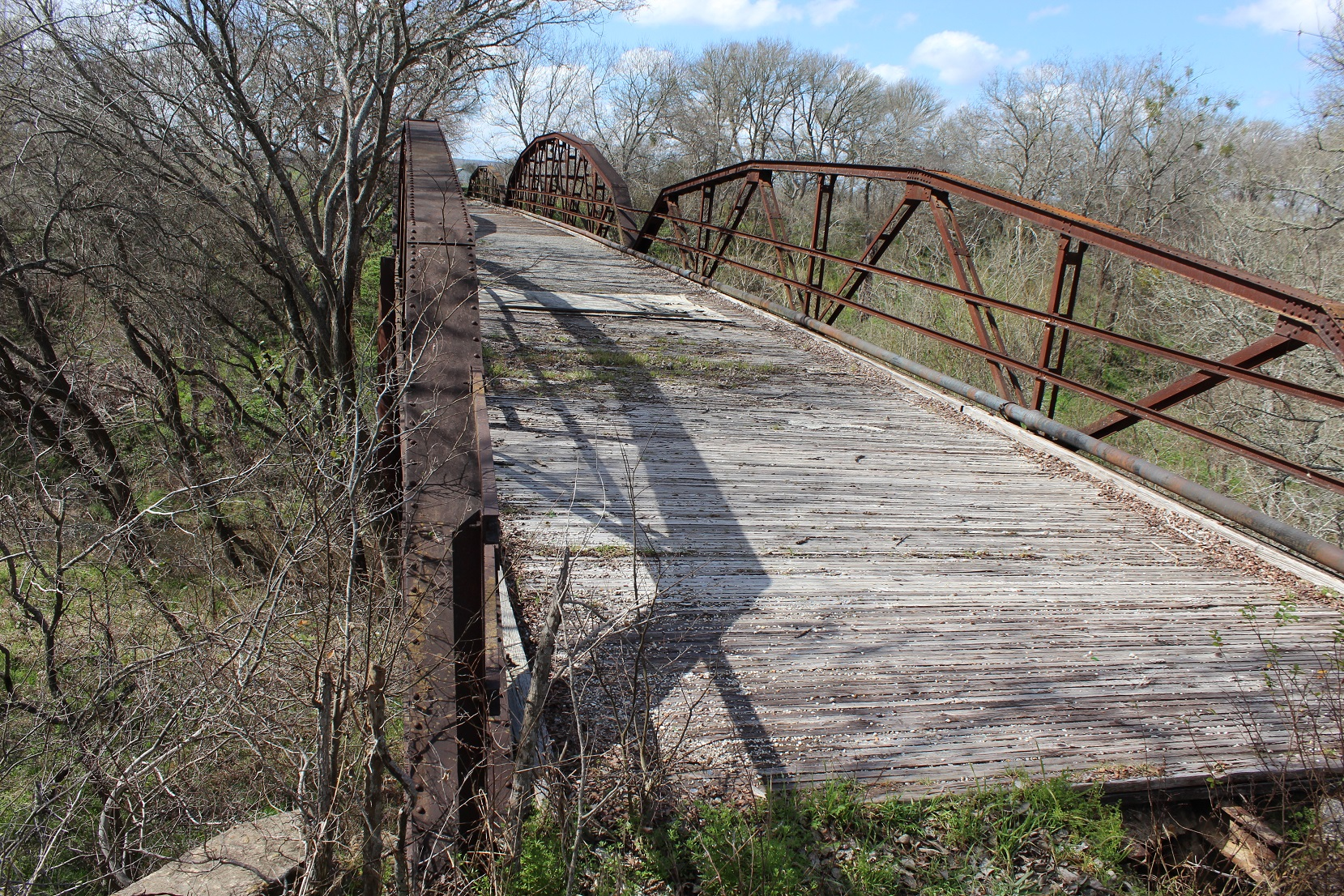 Bridge at McAlister Crossing (Mueller Bridge) (2/10 mi. SW). John Murphy McAlister (1807-1885) and his wife, Isabella (McClain) (1817-1872), settled in La Vernia with their family in the early 1850s. In 1857, they purchased several hundred acres of land on the southwest bank of Cibolo Creek. The natural stream crossing adjacent to their property became known as McAlister Crossing and for years served residents on both sides. The McAlister children subdivided the land following their father's death in 1885. About the same time, county commissioners designated the local route, including the crossing, as Road No. 62 (present County Road 337). In 1906, the Henry Mueller family purchased land on the east side of the creek; a son would later buy land on the west side, just southwest of McAlister Crossing. In 1908, county commissioners permitted the placement of telephone poles along the road and the creek crossing. In 1915, the Commissioners Court contracted with the Alamo Construction Company of San Antonio to erect five bridges in the county, including one at McAlister Crossing. The most expensive of the new structures, the bridge at McAlister Crossing, completed in 1915, cost nearly $9,000. Because members of the Mueller family owned property on either end of the bridge, it was often called Mueller Bridge. The three-span, 252-foot Mueller Bridge at McAlister Crossing features polygonal camelback trusses with multiple panels. For more than 70 years it served local residents, surviving Cibolo Creek's occasional raging waters. Closed to vehicular traffic in 1988, it remains a historic link to engineering designes of the early 20th century. Recorded Texas Historic Landmark - 2004 #13258